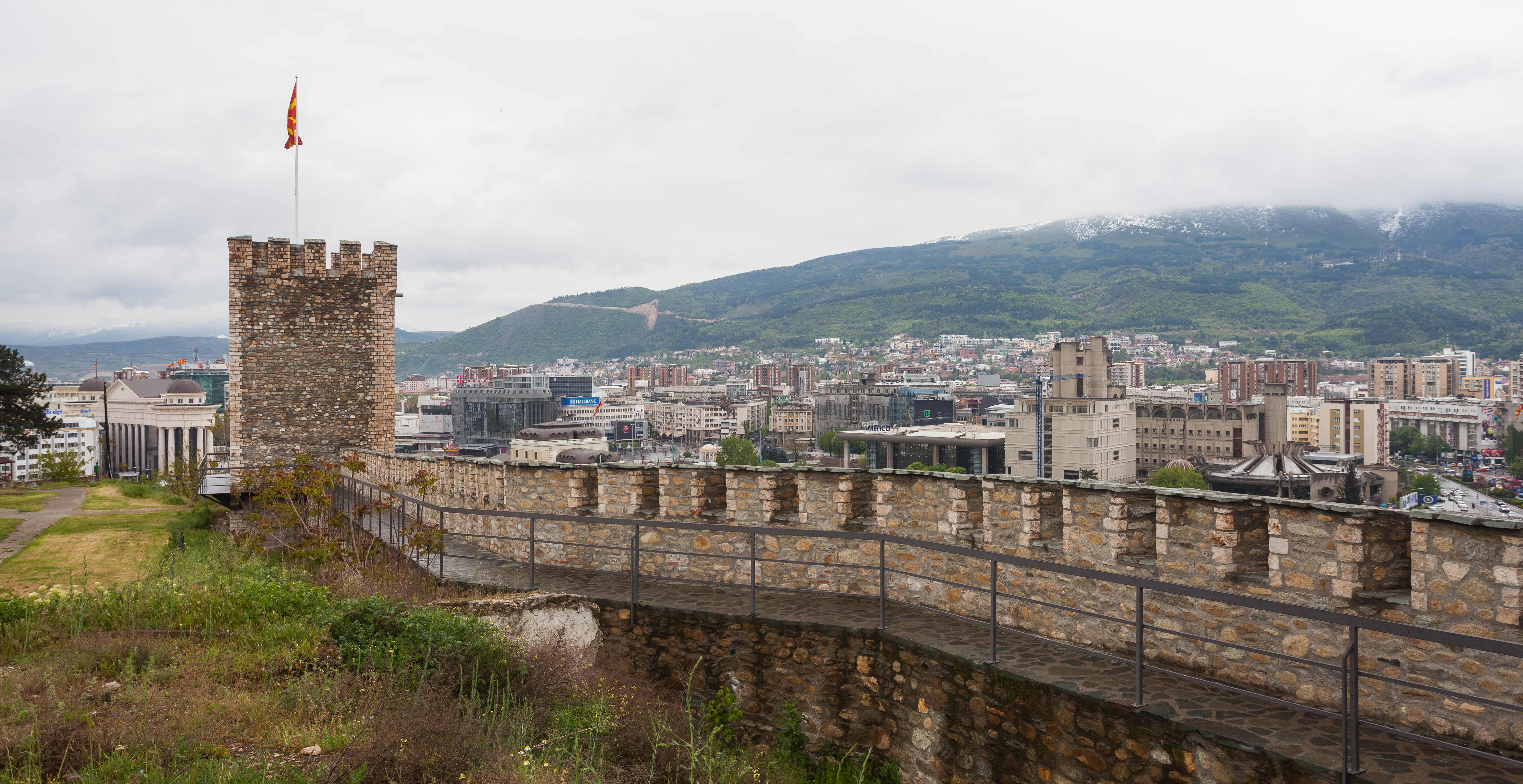 Skopje Fortress, Macedonia